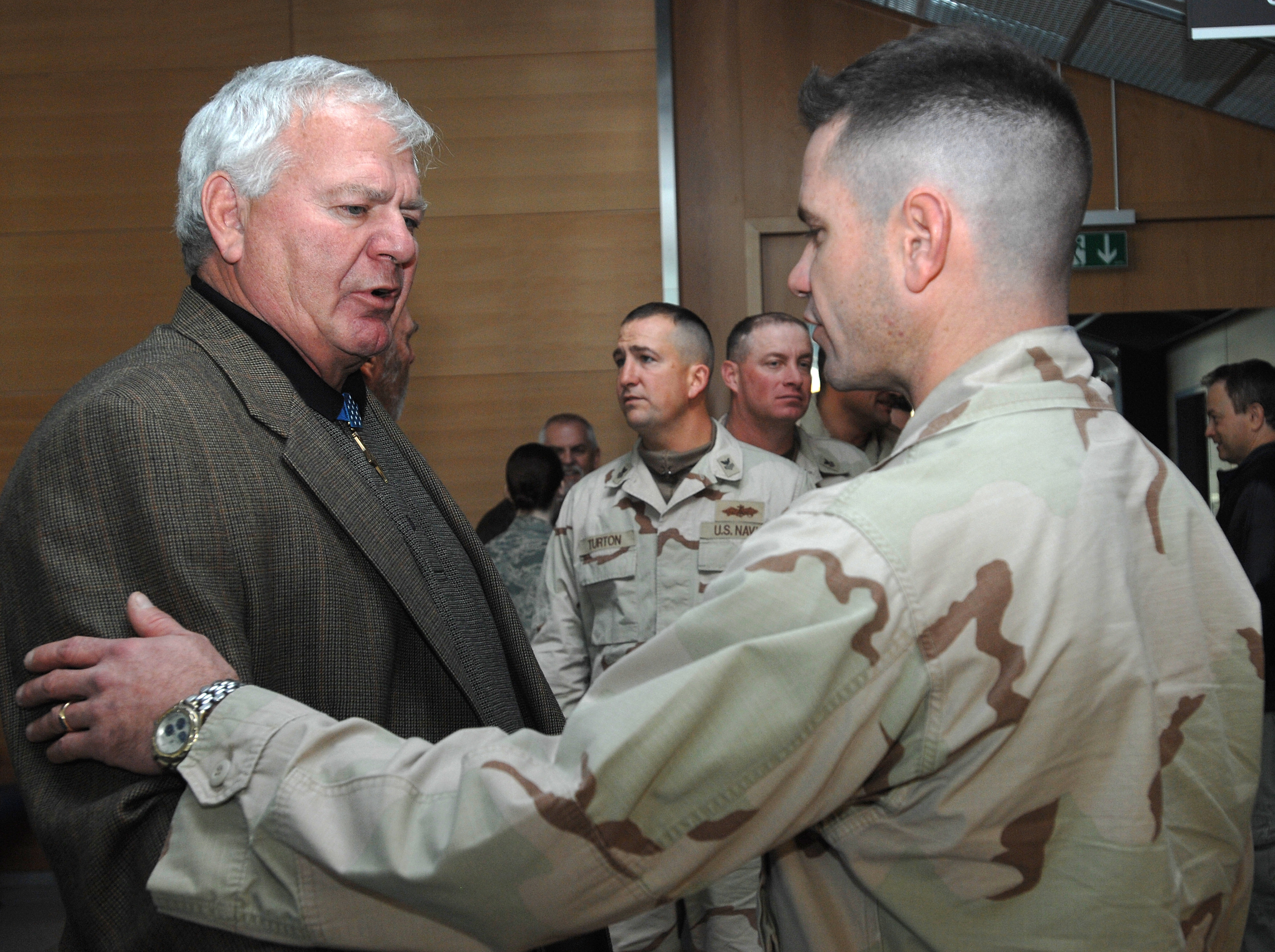 Mike Thornton, left, Medal of Honor recipient, thanks U.S. Navy Technical Administrator Edward Orcutt for service to his country during a ceremony on Ramstein Air Base, Germany, Jan. 25, 2008. Thornton, Drew Dix, John Ratzenberger and Gary Sinise visited Ramstein to help boost morale and say thank you for all the great work accomplished by the armed forces.